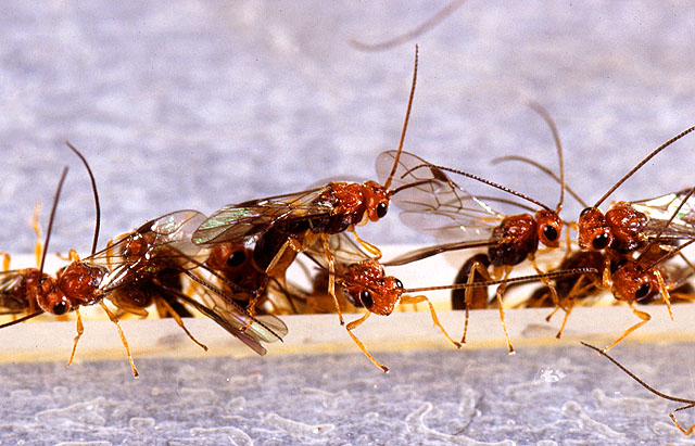 Biosteres arisanus wasps inject their eggs into oriental fruit fly eggs.